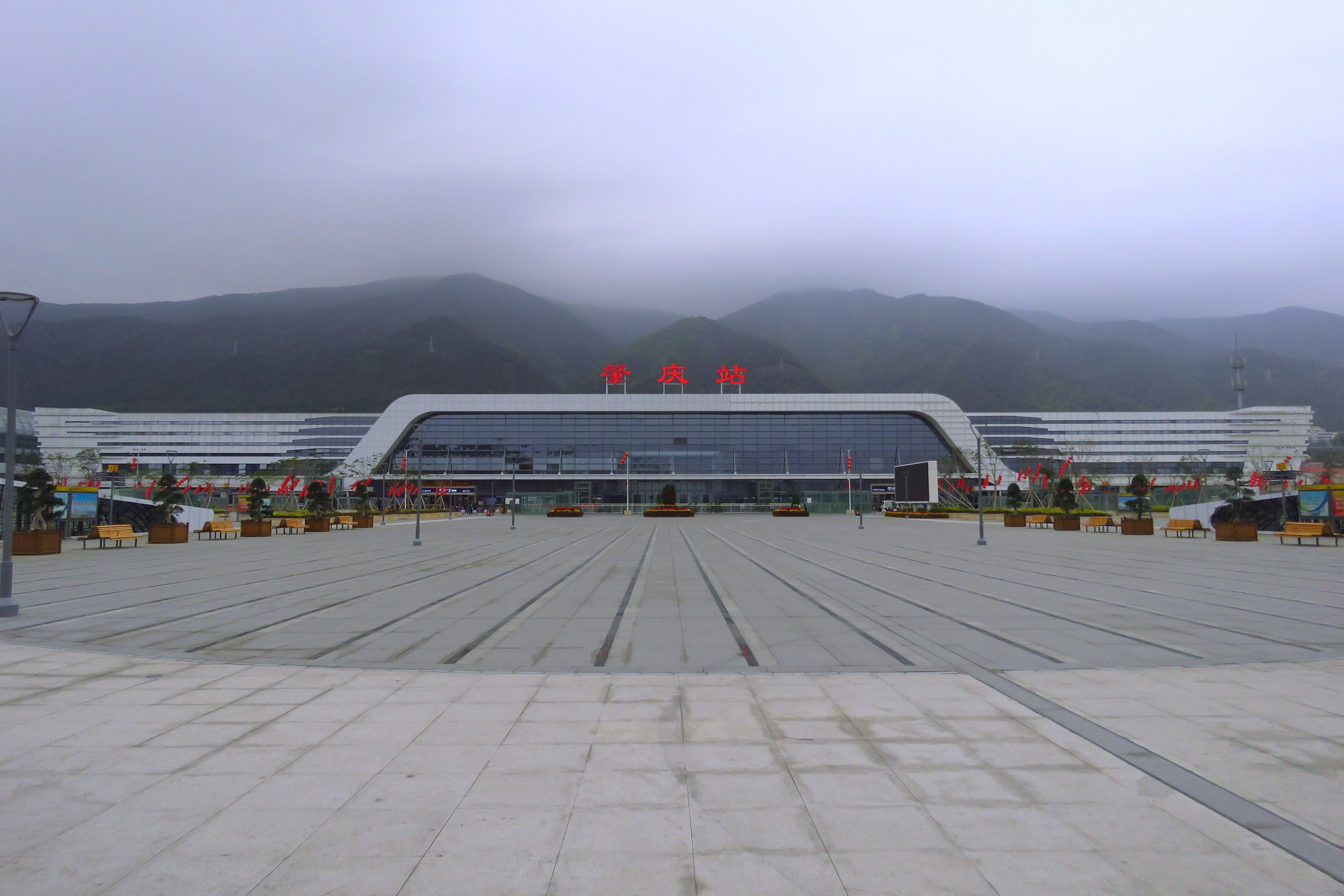 China National Railway Zhaoqing Station building